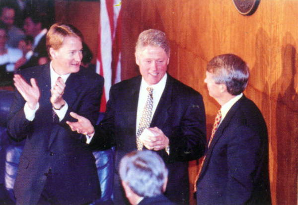 House Speaker Peter Rudy Wallace (L) and Senate President James A. Scott (R) welcome President Bill Clinton to a joint session of the legislature on March 30, 1995.